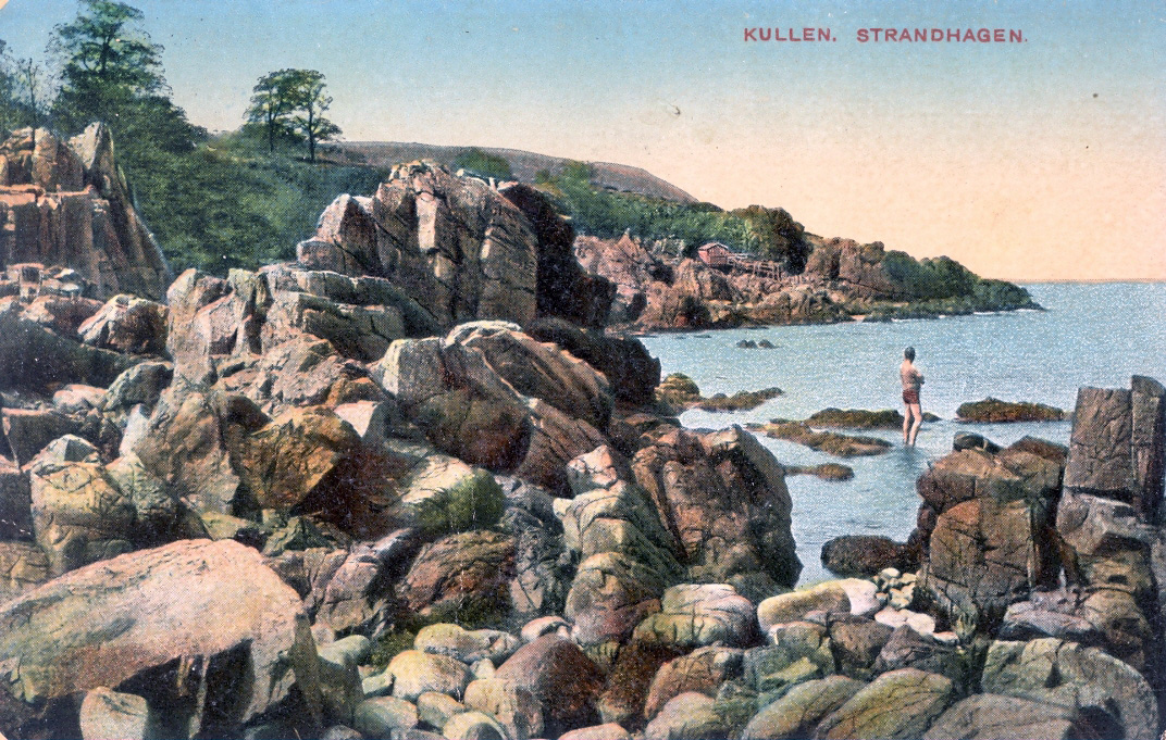 The beach "Strandhagen" outside Arild, Sweden